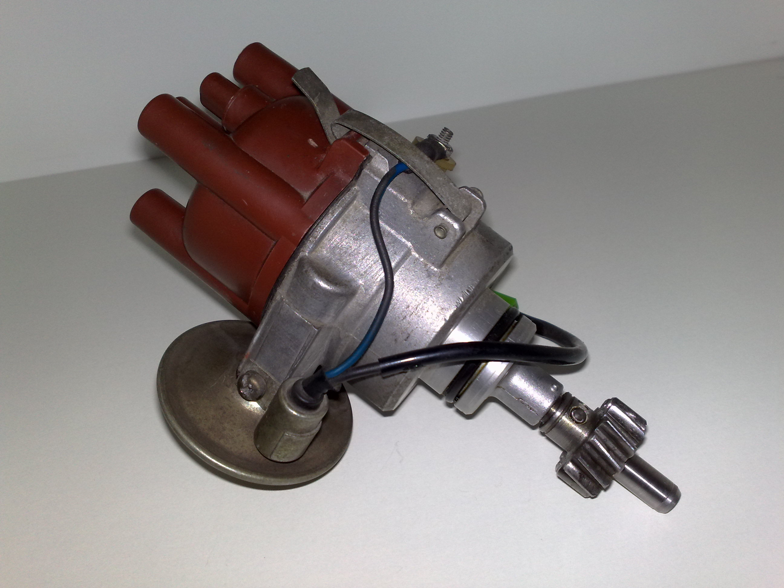 Distributor taken from Toyota 2A engine.